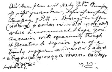 Handwriting of Hermann Gundert.